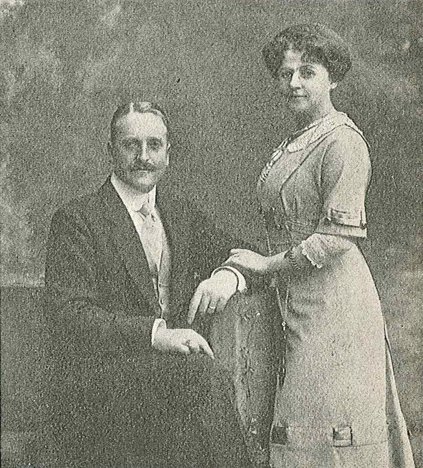 Henrik Hamilton (1878-1917), Swedish count, officer and aviation pioneer, with his wife Ellen.